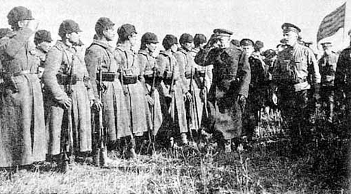 admiral Kolchak inspecting the troops